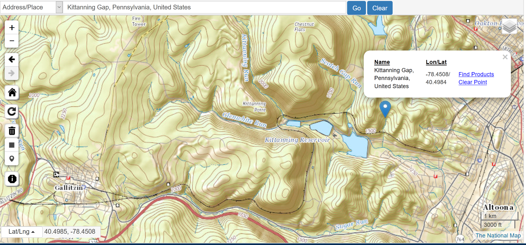 Display of data in the USGS National Map viewer after finding the term Kittaning Gap, by name Pennsylbania near Altoona, PA and showing the PRR Horseshoe Curve.